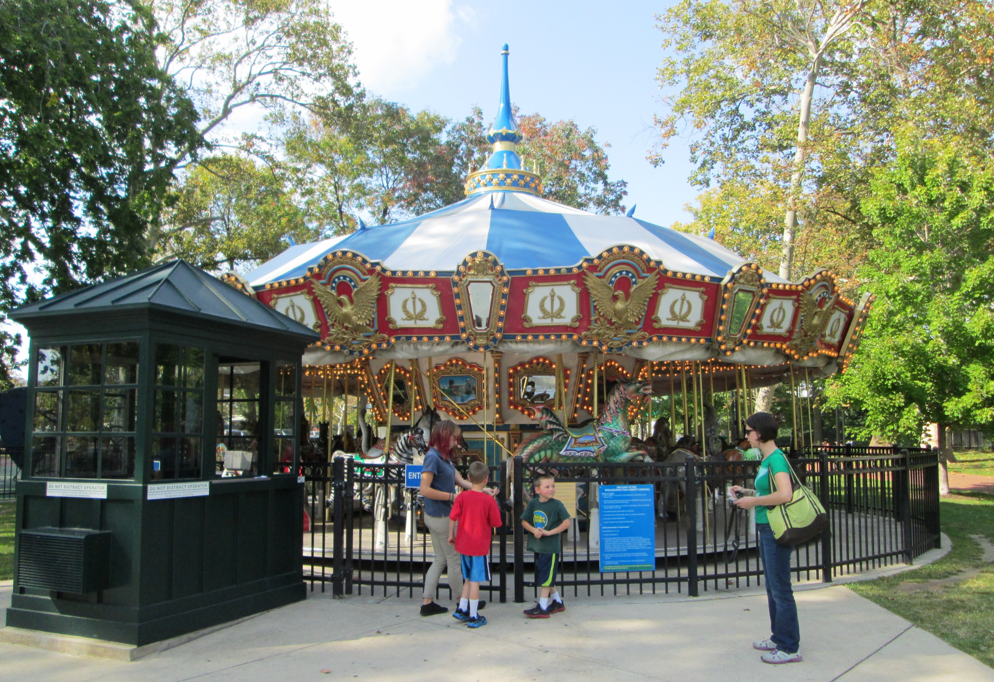 Franklin Square, located between North 6th and 7th Streets and Race Street and Interstate 676 in Center City, Philadelphia, is one of the five original open-space parks planned by William Penn when he laid out the city. Originally called Northeast Square, it was renamed in 1825 to honor Benjamin Franklin. The park, which is now managed and maintained by Historic Philadephia, was refurbished and rededicated in 2006.